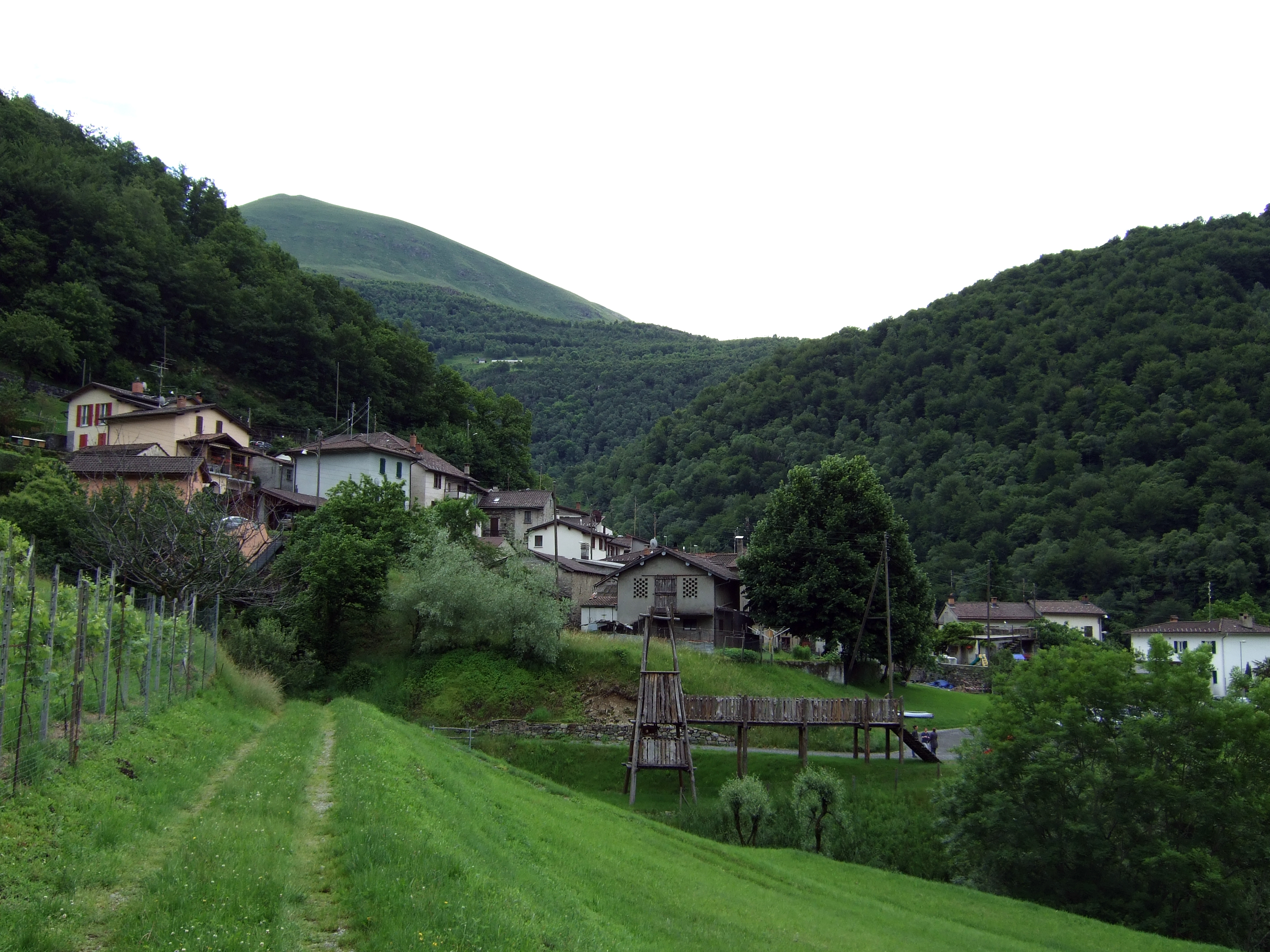 Town of Medeglia, Ticino, Switzerland